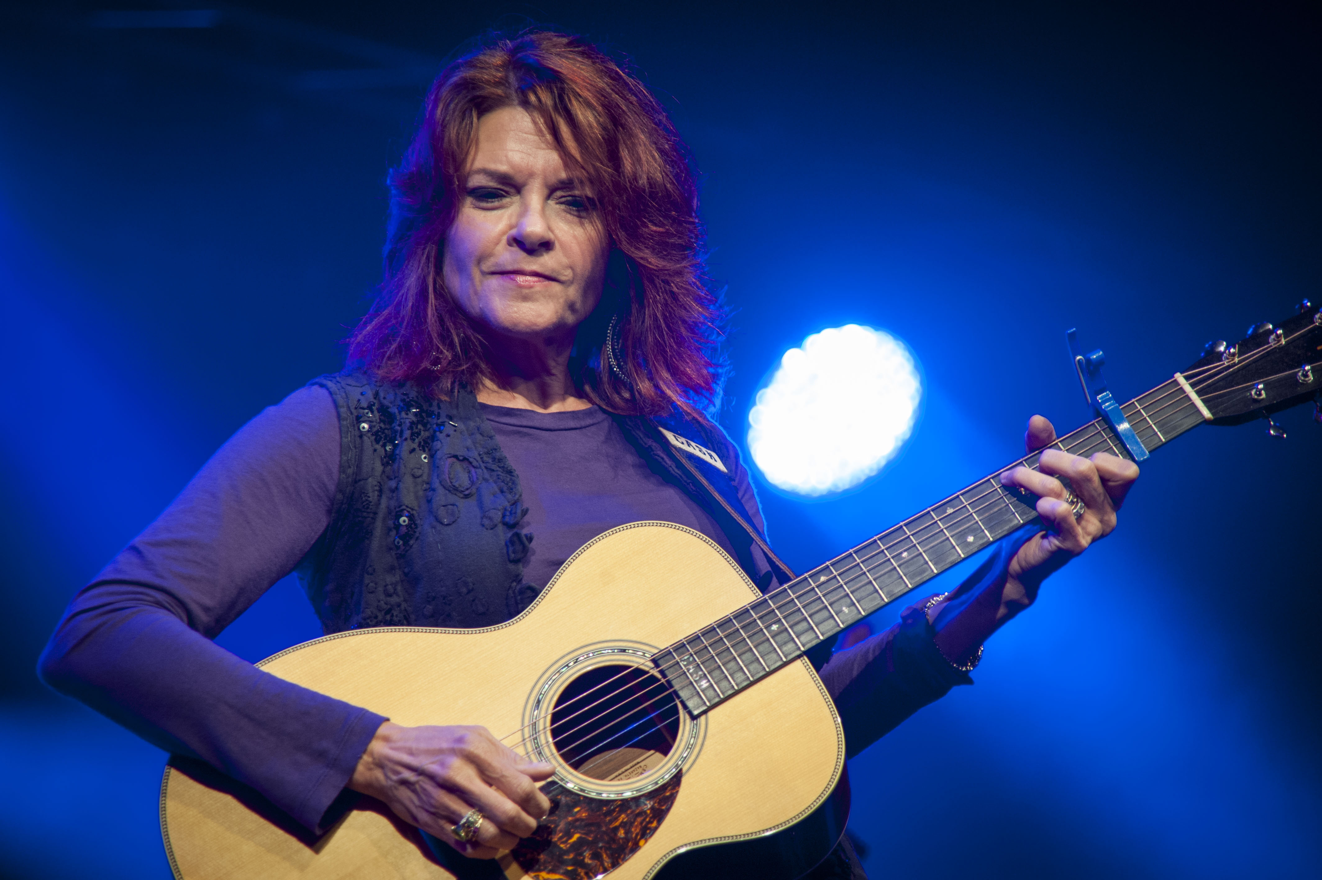 Rosanne Cash at Cambridge Folk Festival 50th Anniversary.